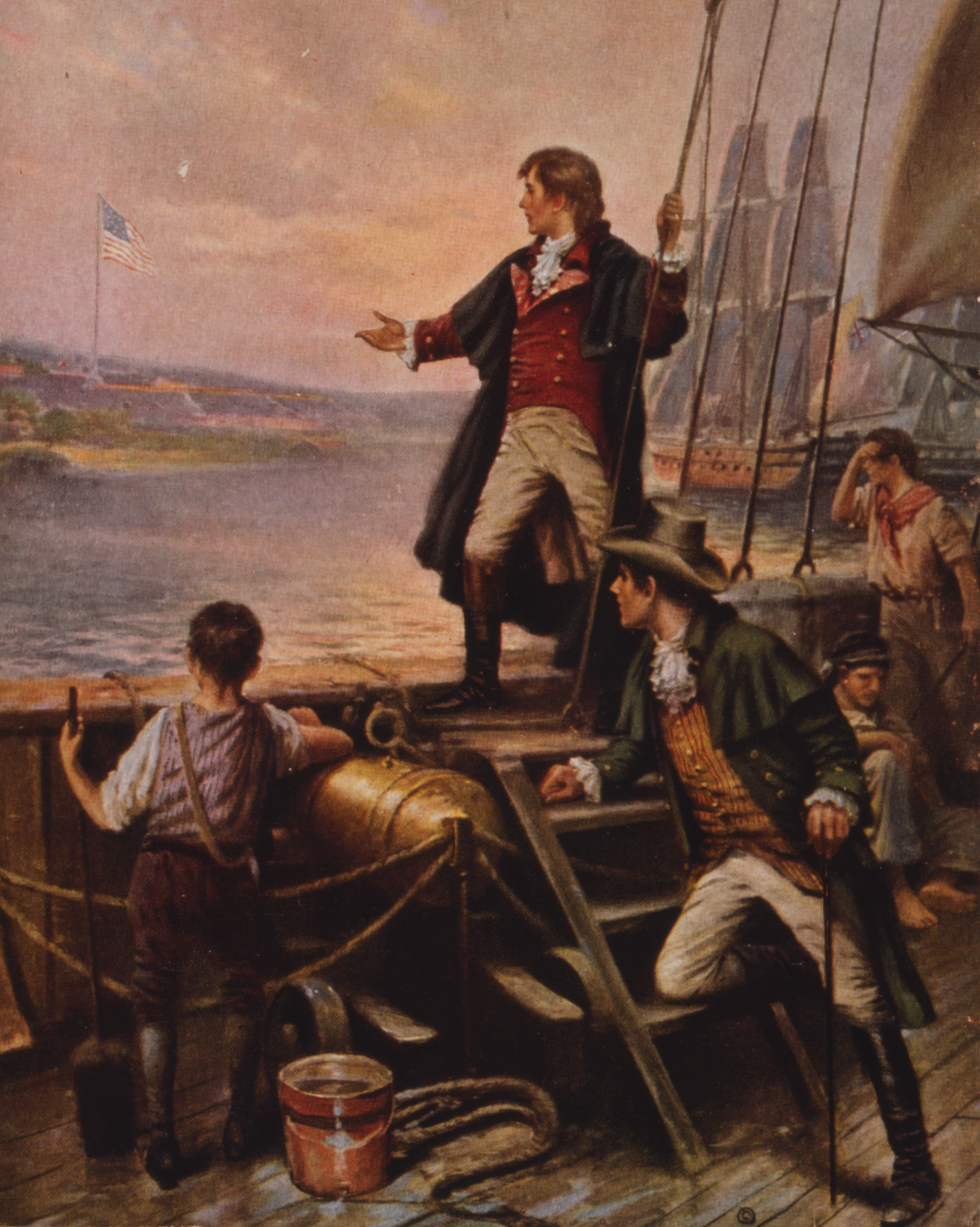 Francis Scott Key standing on boat, with right arm stretched out toward the United States flag flying over Fort McHenry, Baltimore, Maryland.